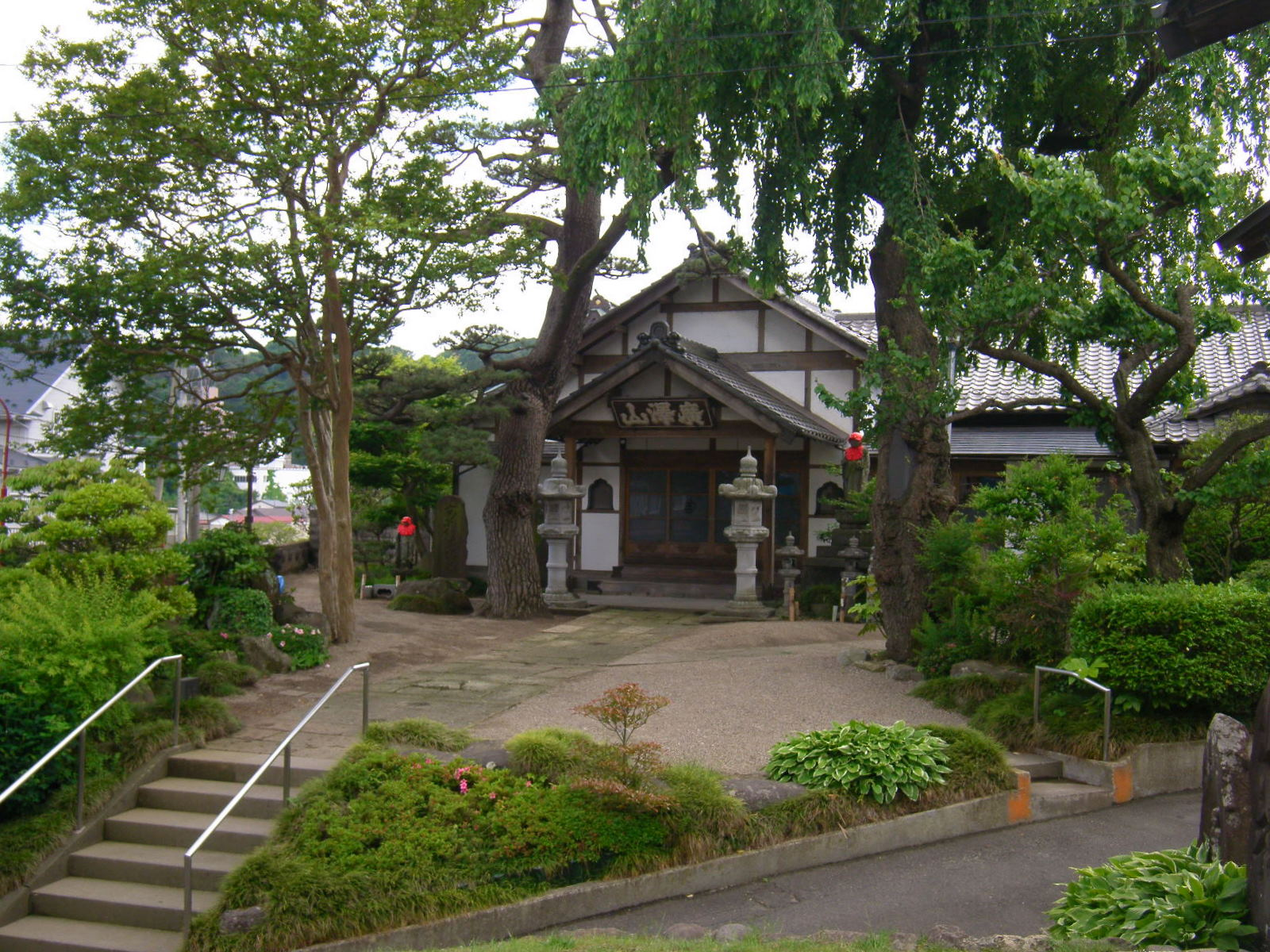 Simpuku temple in Sendai. Tsuchitoi, Wakabayashi-ku, Sendai, Miyagi prefecture, Japan.